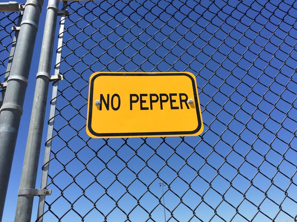 Sign posted at baseball field park in Brentwood, CA prohibiting the type of baseball/softball practice known as "pepper."